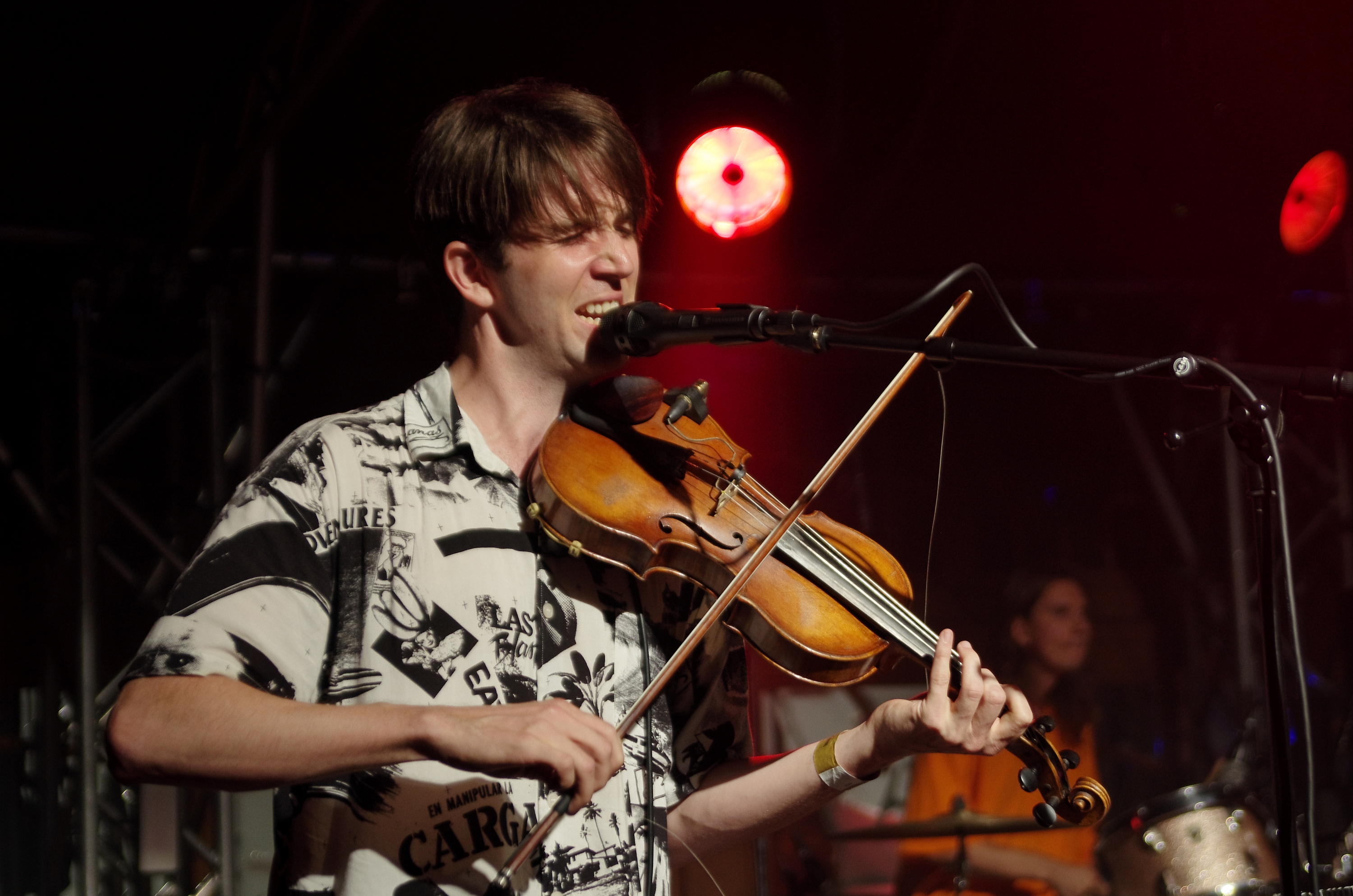 Owen Pallett at Haldern Pop 2013